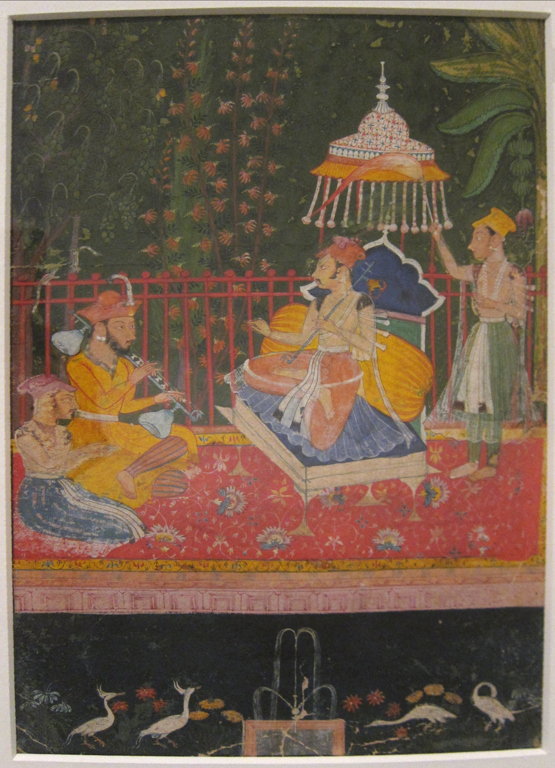 Ragamala, anonymous ink and colors on paper painting from India (Bundi), 1670, Honolulu Museum of Art, accession 10697.1